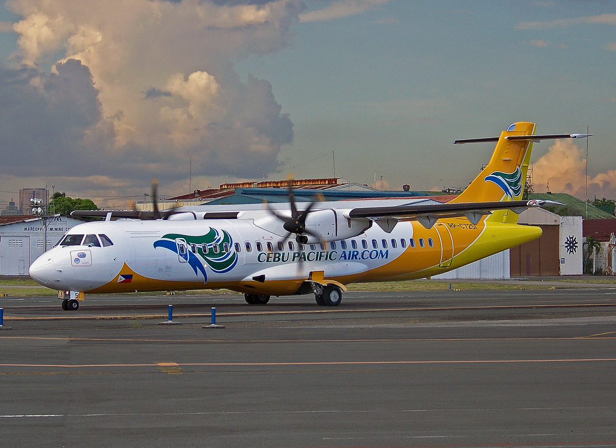 RP-C7251, one of Cebu Pacific's ATR-72 aircraft at the Ninoy Aquino International Airport.